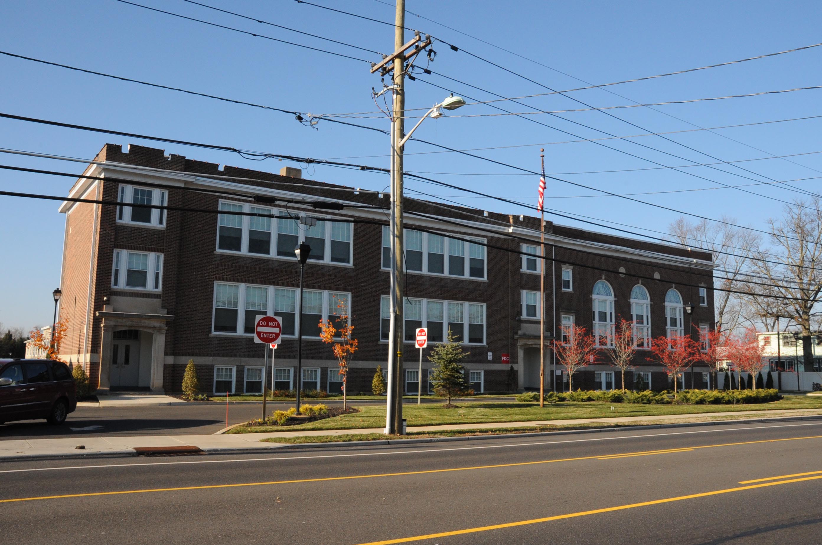 Elementary school built in 1915 and closed in 2008 after which it was converted into the Springside School Apartments.